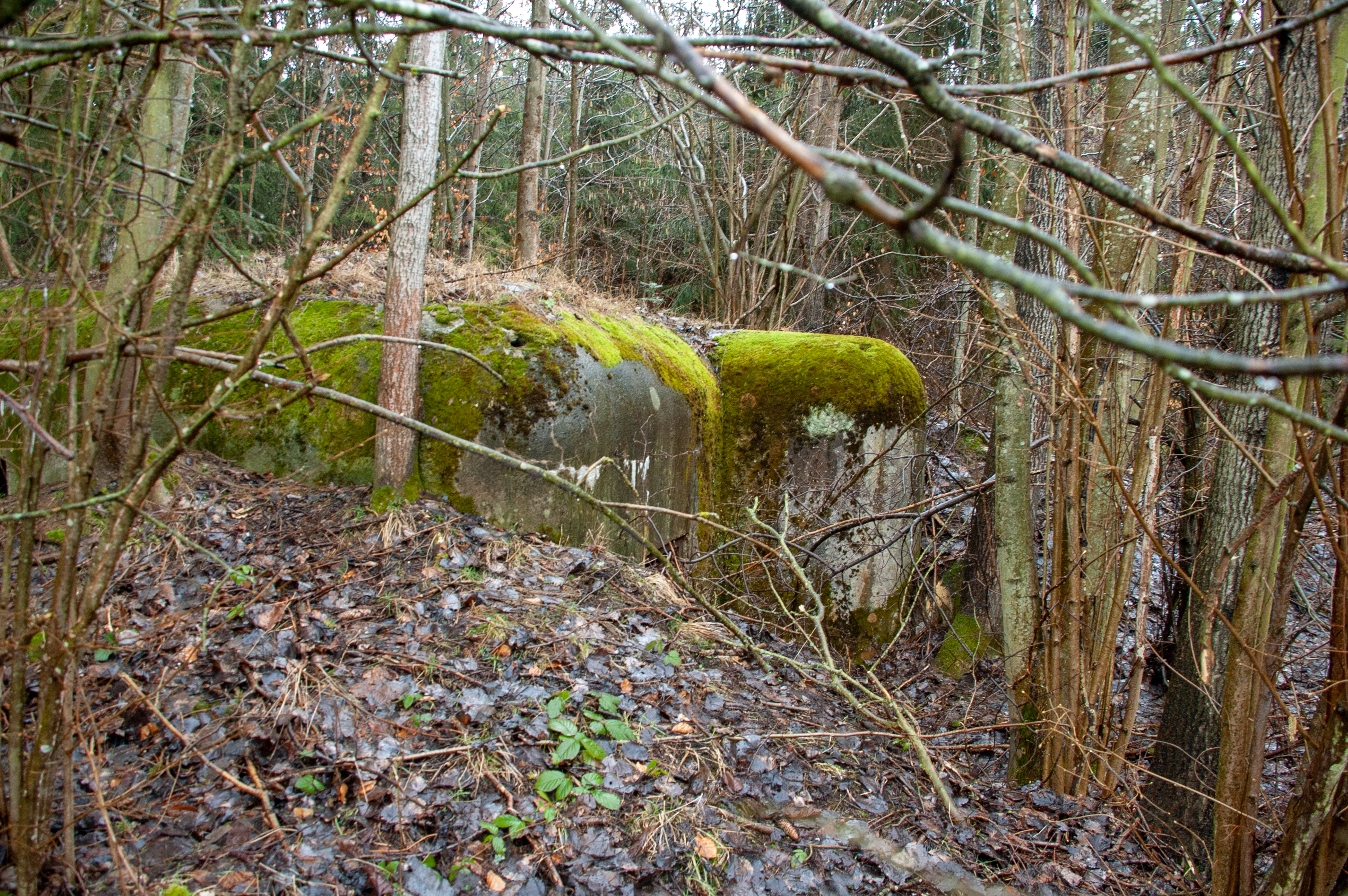 This image was created as a part of Editaton Prachatice (Czech).